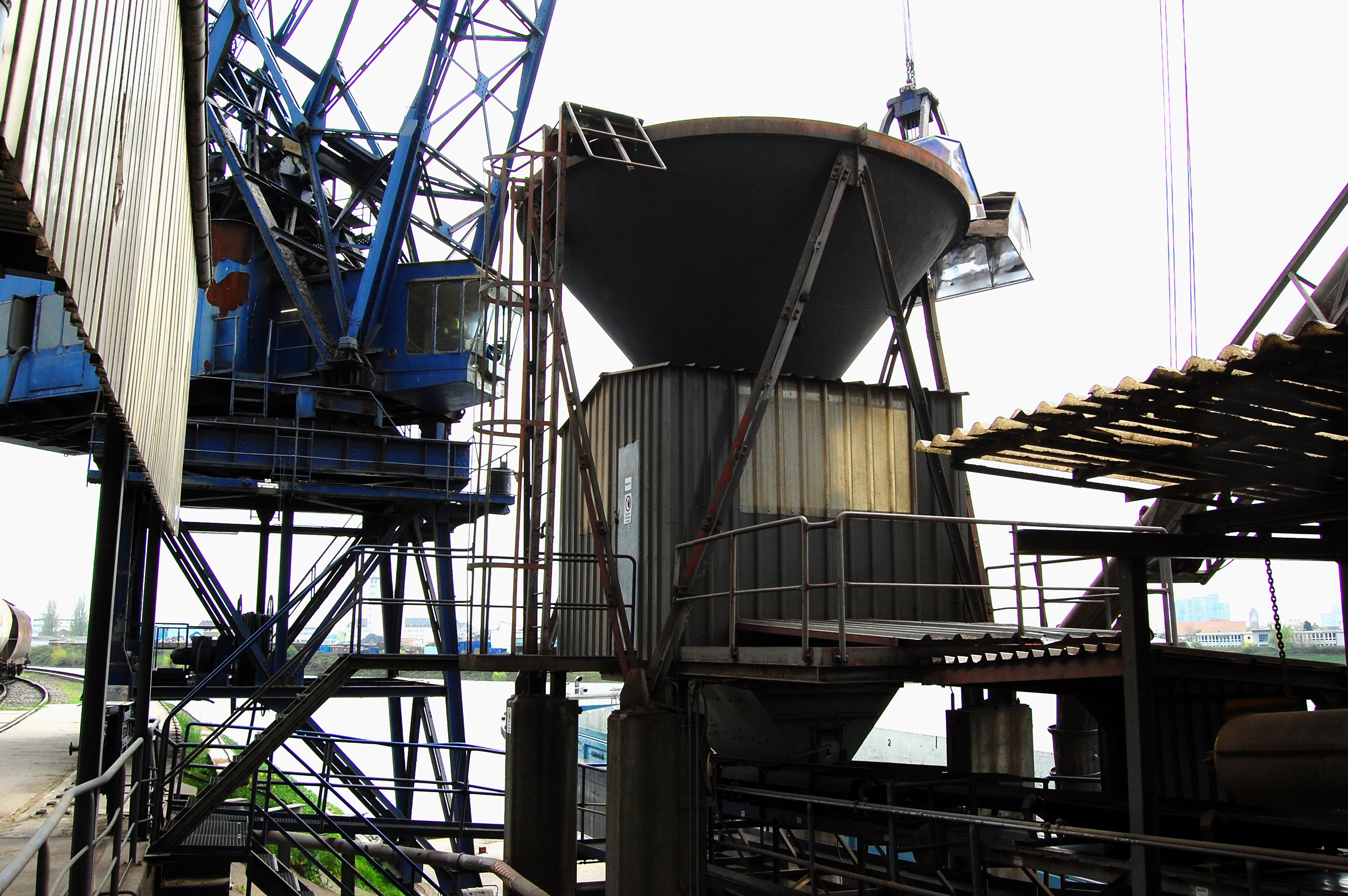 Unloading of a Bulk Carrier, Industriehafen (Industrial Port), Mannheim, Germany